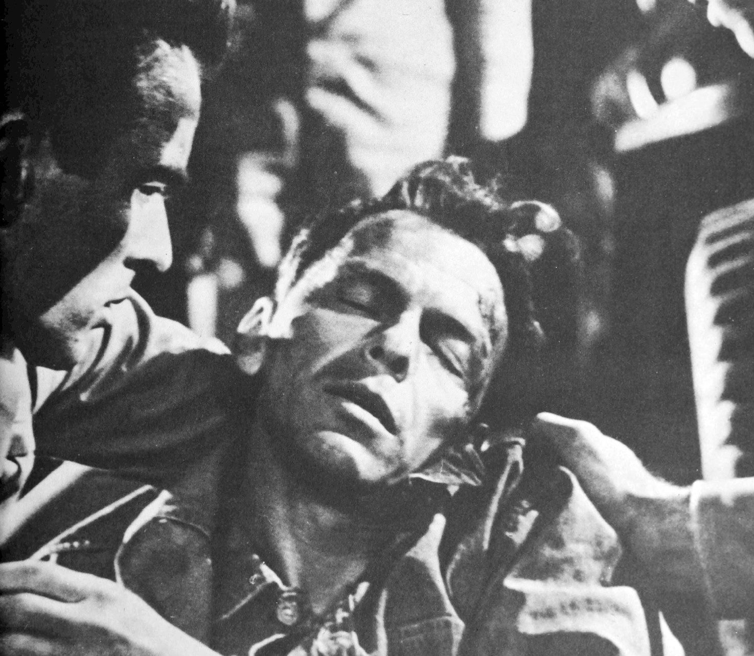 Photo of Frank Sinatra as Maggio from the film From Here to Eternity. A search for copyright renewal was done at under the name of one of the book's authors, Richard Schickel. While Schickel has registered a number of later works and has a renewal for a 1960 work, this title, The Stars, was not listed there. There's no evidence of continuing copyright for the book.